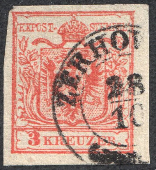 Austria 1850 3Kr IIIa hand made paper. Postmark 'ZERHOWITZ' (now Čerhovice, Czech Republic).